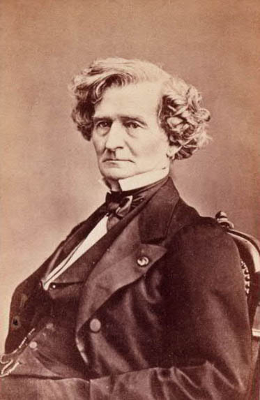 Photo of Hector Berlioz (1803 – 1869)